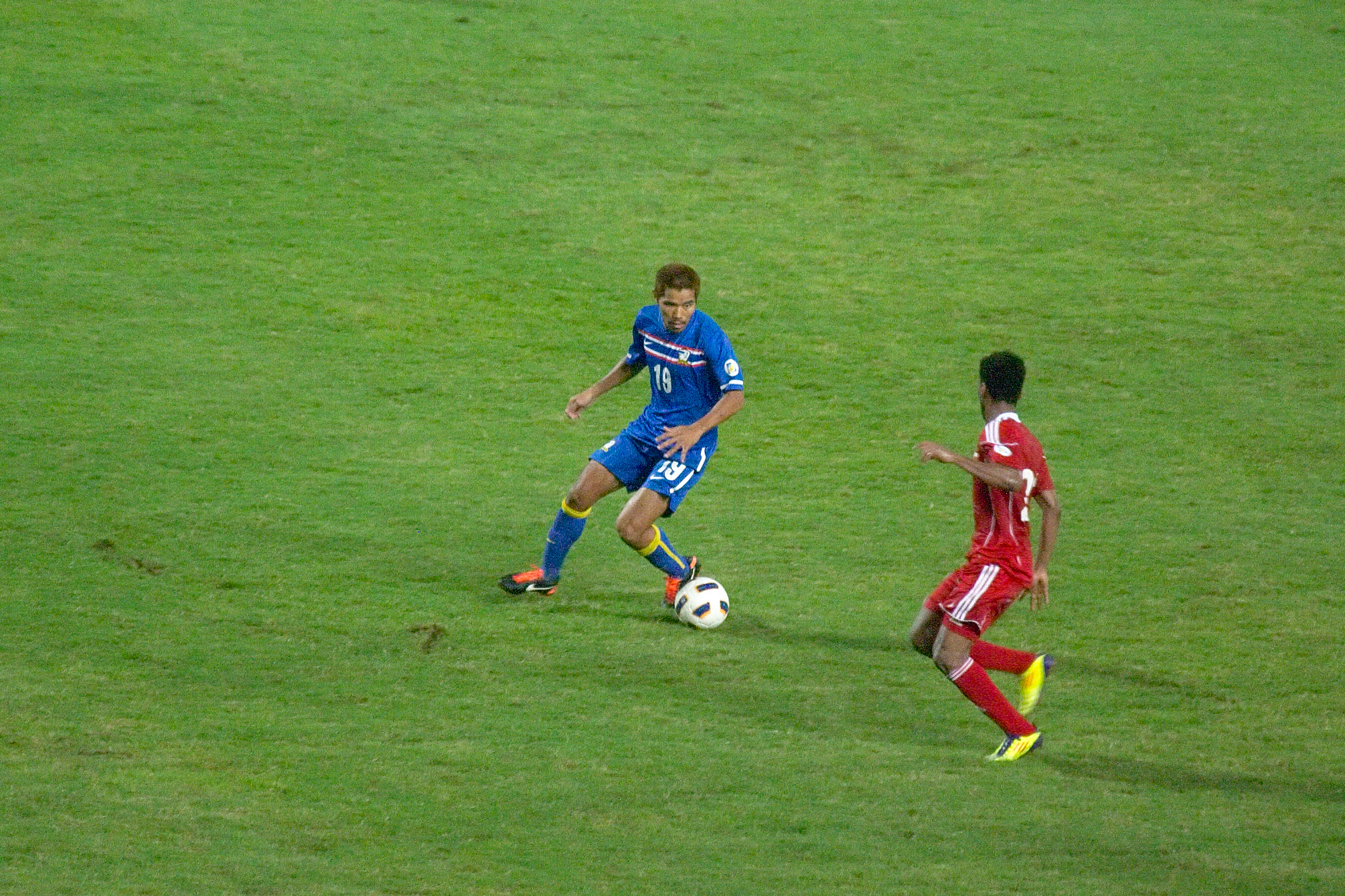 Suree Sukha playing for Thailand in the World Cup 2014 third round qualifying match against Oman at Rajamangala Stadium